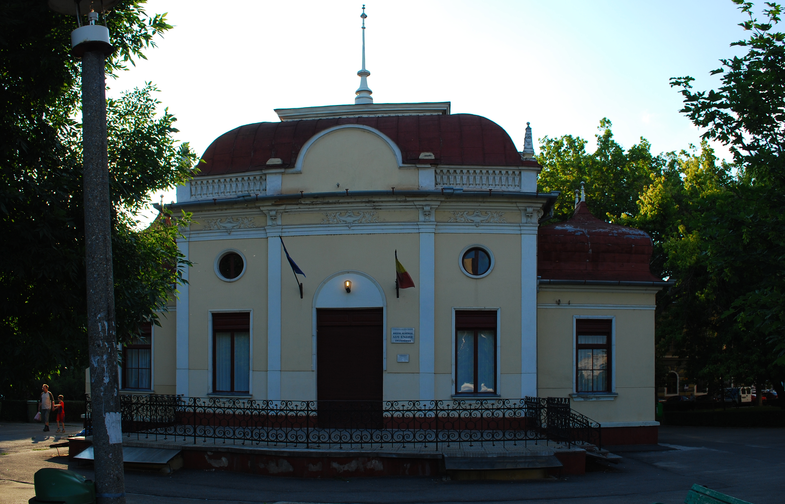 Ady Endre memorial museum in Oradea, Romania